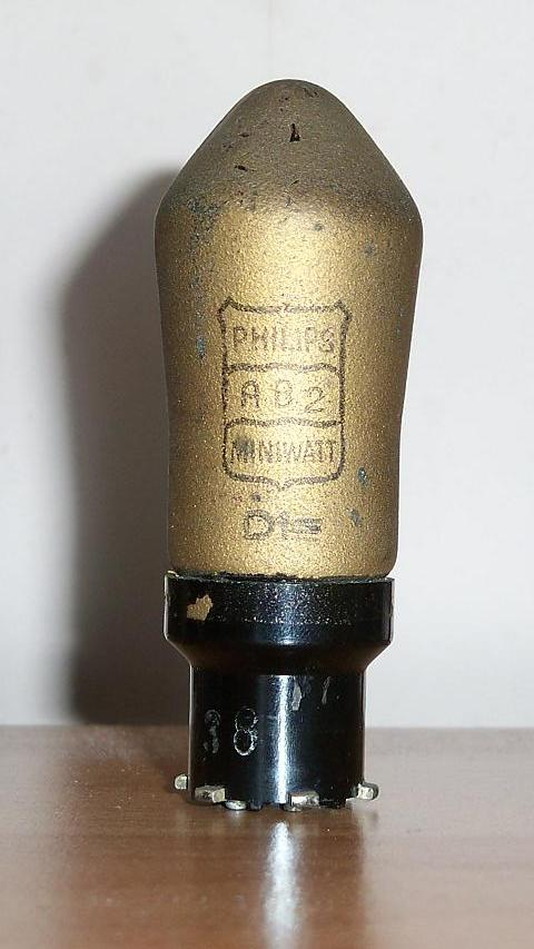 Signal duodiode AB2